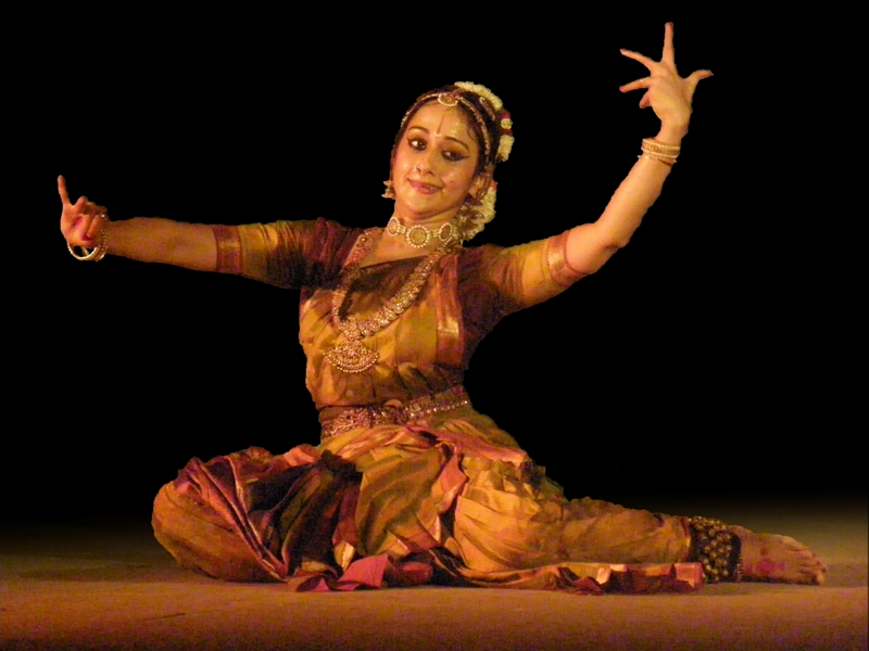 I took this photograph, and I release it with a Creative Commons Attribution-ShareAlike 3.0 License. You are free to use this photograph for non-commercial and commercial purposes provided you properly attribute this work to me.